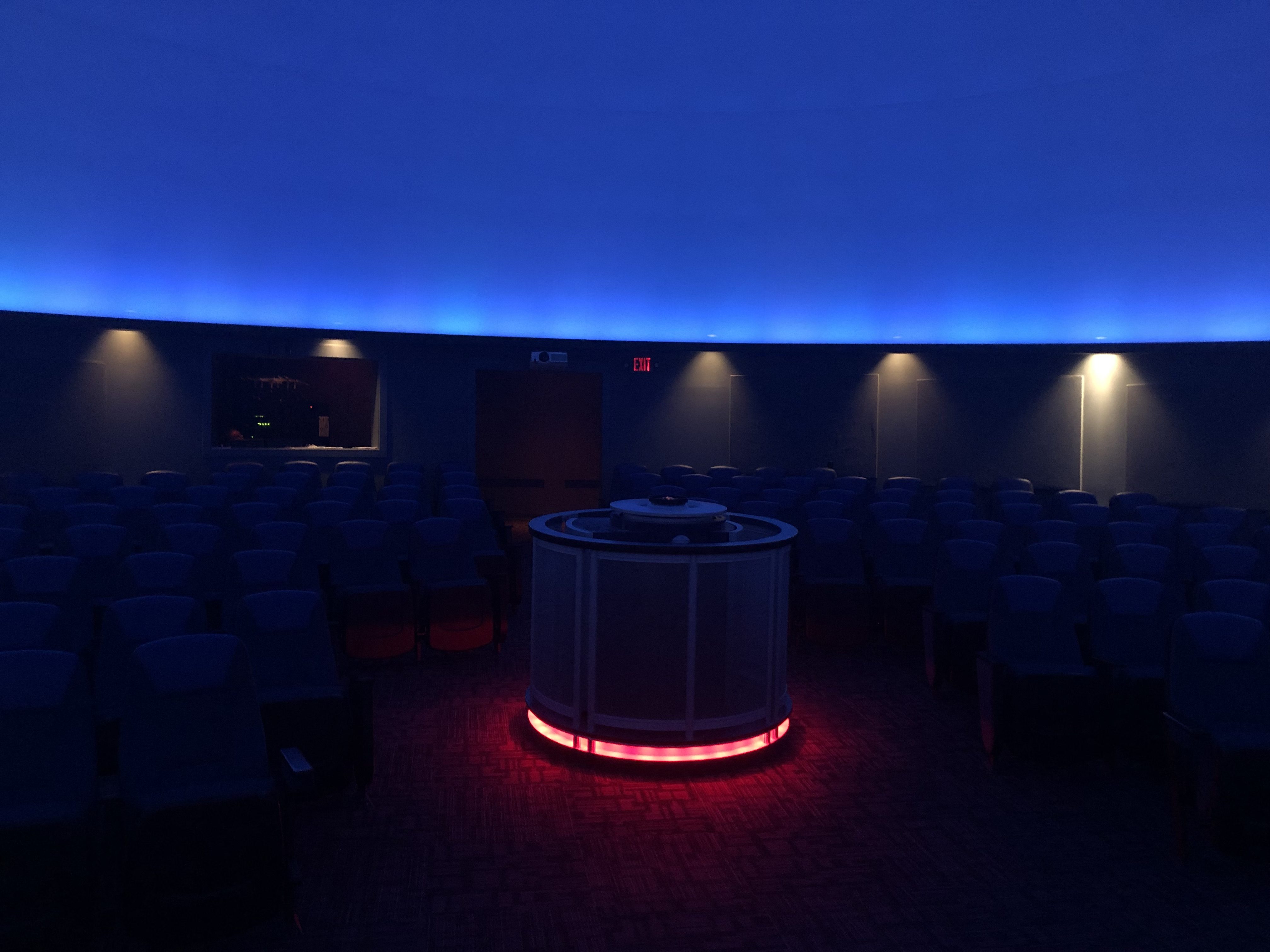 The inside of the Mark Smith Planetarium, located at the Museum of Arts and Sciences in Macon, GA.